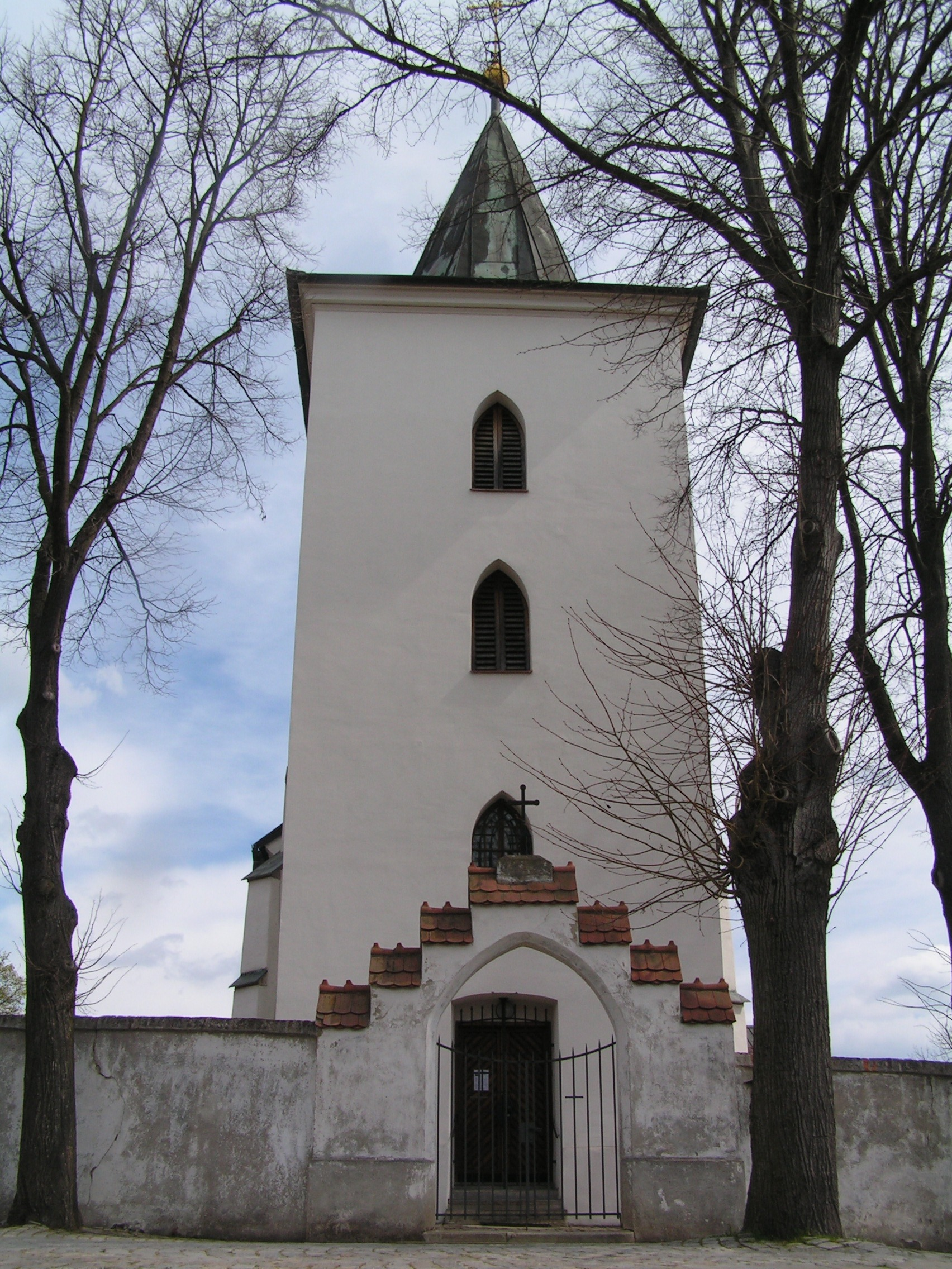 Church of SS Philip and James in Lelekovice, Brno-Country District, Czech Republic.